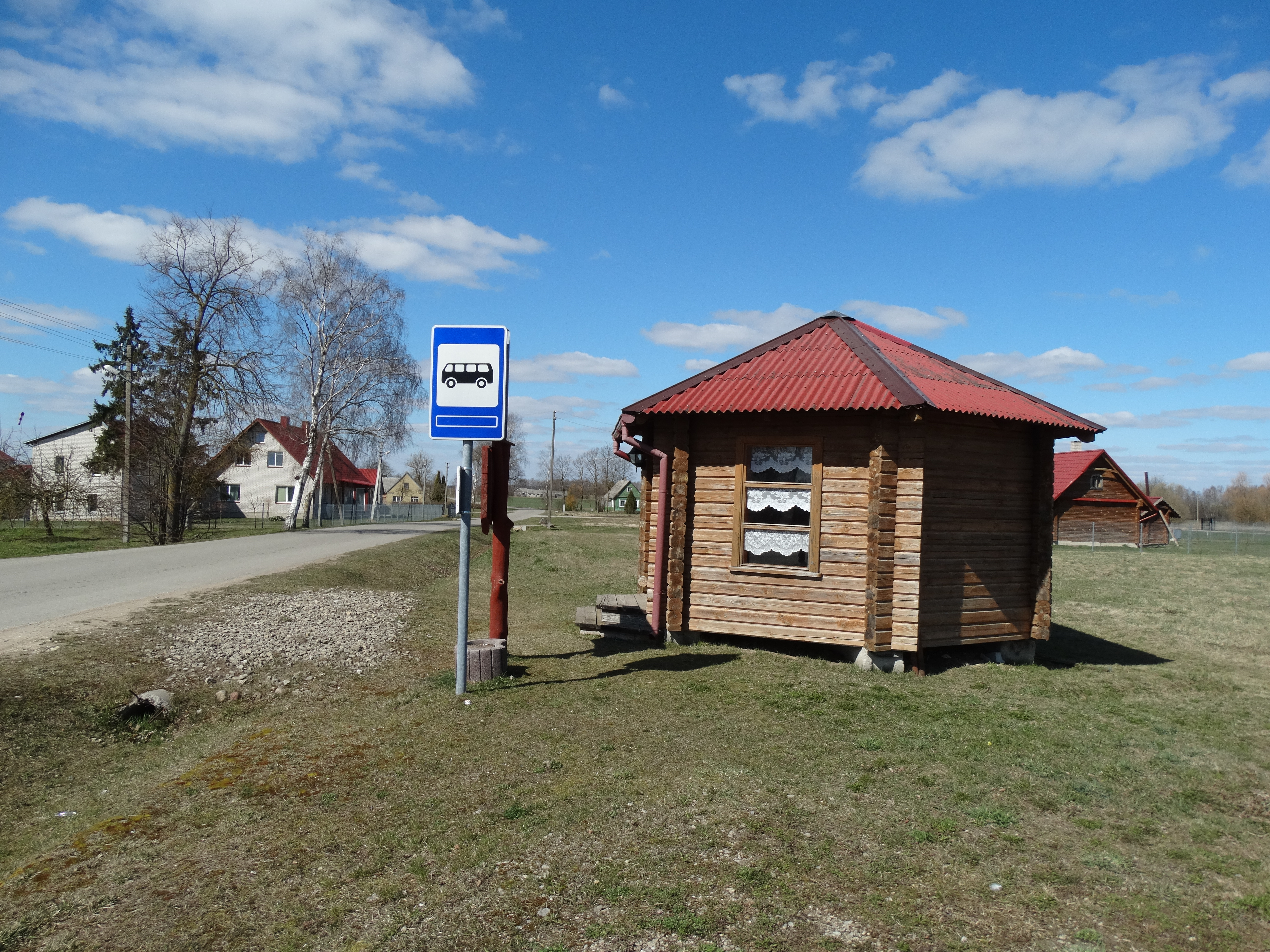 Bus stop, Rokoniai, Radviliškis District, Lithuania